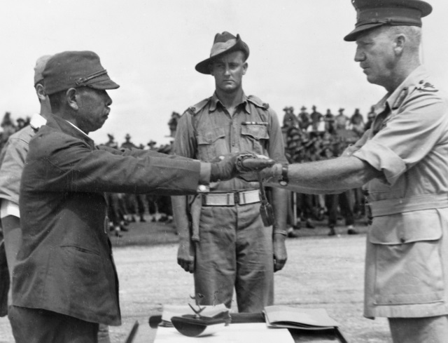 AWM Caption: Papua New Guinea: New Guinea, Cape Wom. Signing of surrender documents by Lieutenant General (Lt Gen) Hatazo Adachi, Commander of the Japanese 18th Army in New Guinea. After signing the unconditional surrender, Lt Gen Adachi is ordered to hand in his sword by the General Officer Commanding, 6th Division, Major General H. C. H. Robertson, at Wom Airstrip, New Guinea, and does so. NX9159 Major Douglas S Burrows OBE, Deputy Assistant Adjutant General (DAAG) 6th Division, stands at attention at rear.